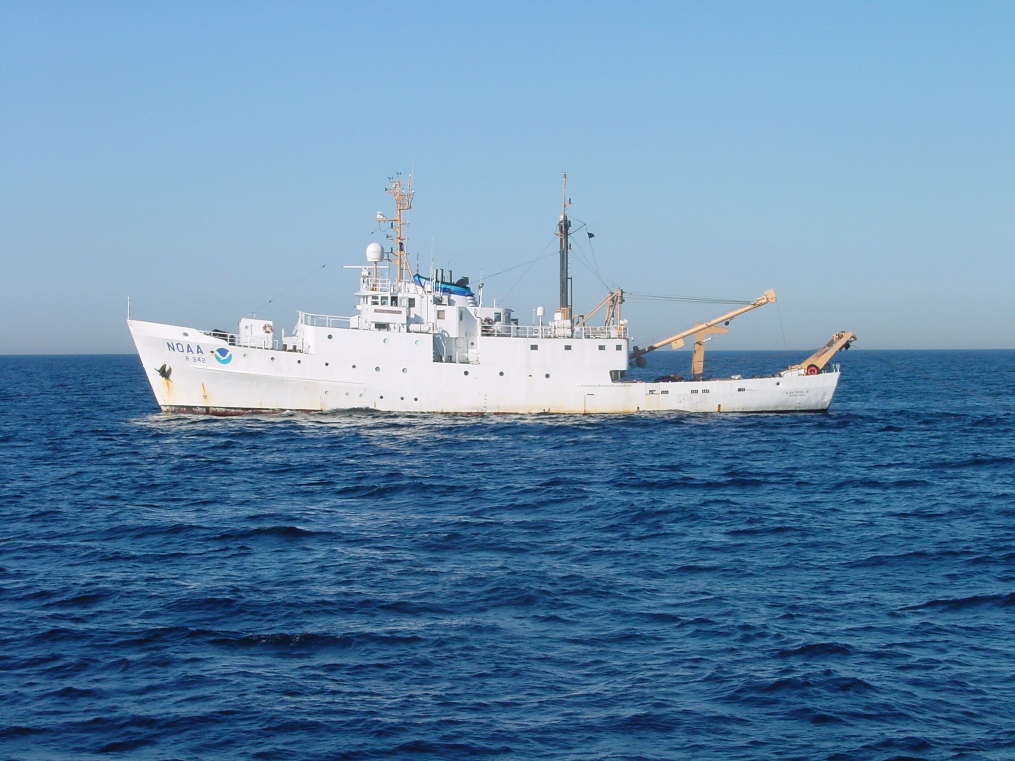 The National Oceanic and Atmospheric Administration (NOAA) fisheries research ship NOAAS Albatross IV (R 342) with her trawl out astern, photographed from the NOAA fisheries research ship NOAAS Delaware II (R 445)